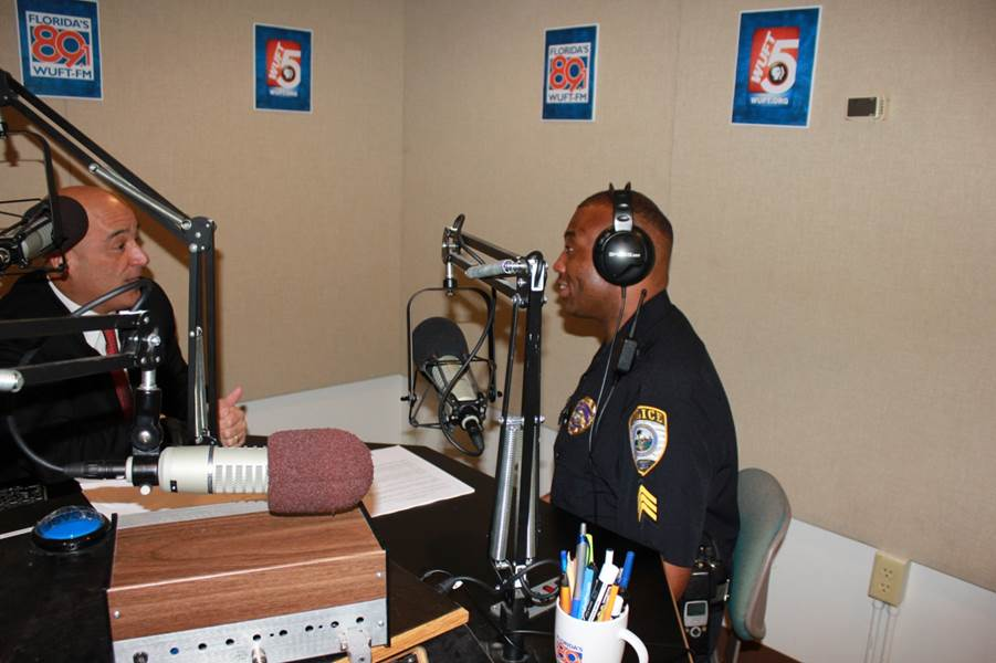 Dr. Latimer recording a Public Health Minute segment at WUFT 89.1's radio station